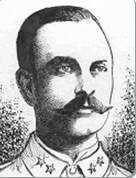 Salomé_Hernández_Villegas